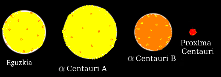 Sizes, comparison. Sun (basque name: 'eguzkia'), Alpha Centauri A, Alpha Centauri B, Proxima Centauri.